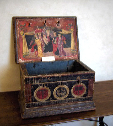 Ebony chest with coat of arms Battilani, Florentine art, Loeser Collection, in the Hercules Room of Palazzo Vecchio, Florence, Italy